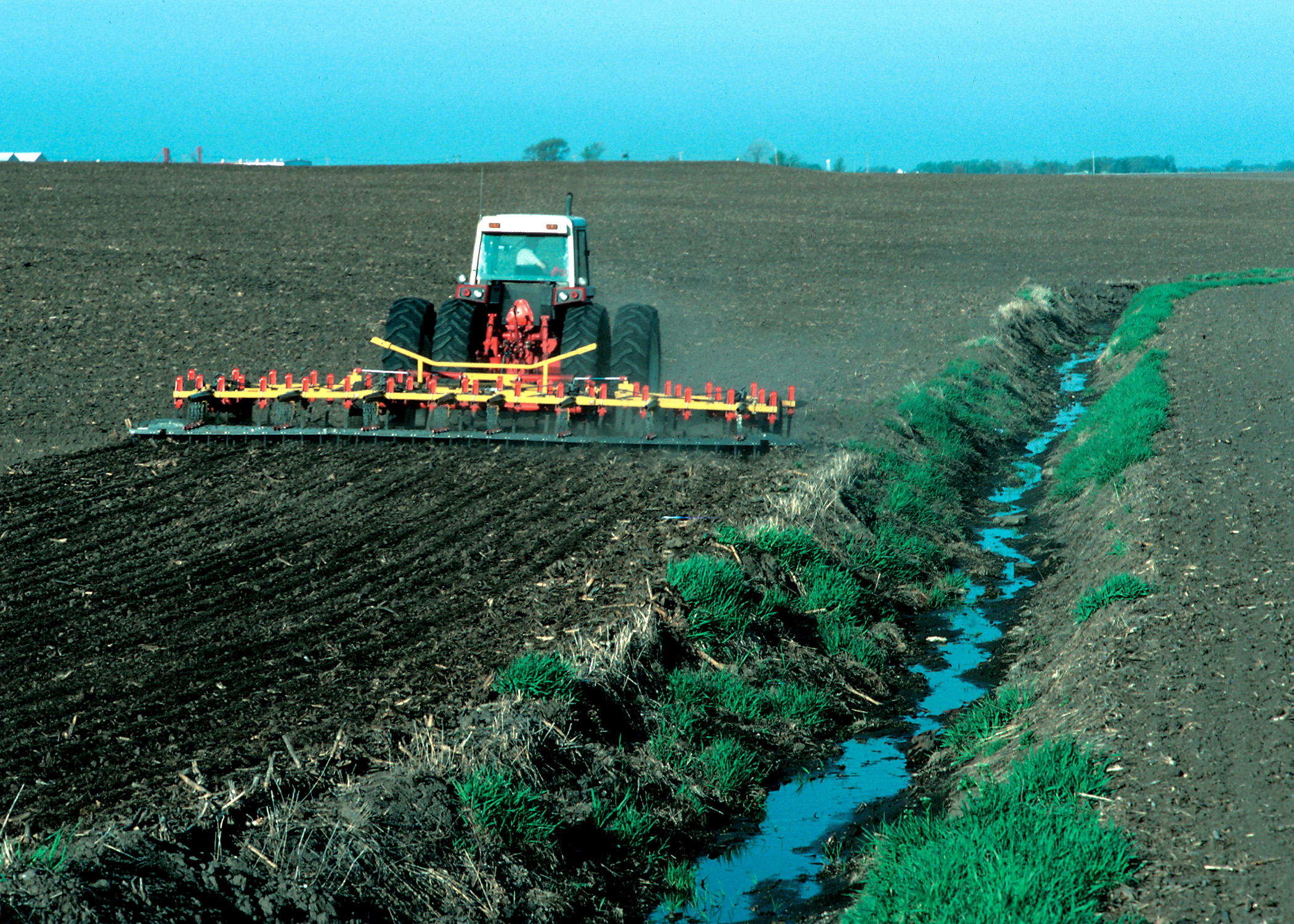 Image of a stream on farm land in Iowa without conservation riparian buffers. Caption: Streams without conservation buffers run higher risks of: streambank erosion; water contamination with farm chemicals; and of sedimentation buildup, as well as offer no habitat for wildlife and biological pest control species.